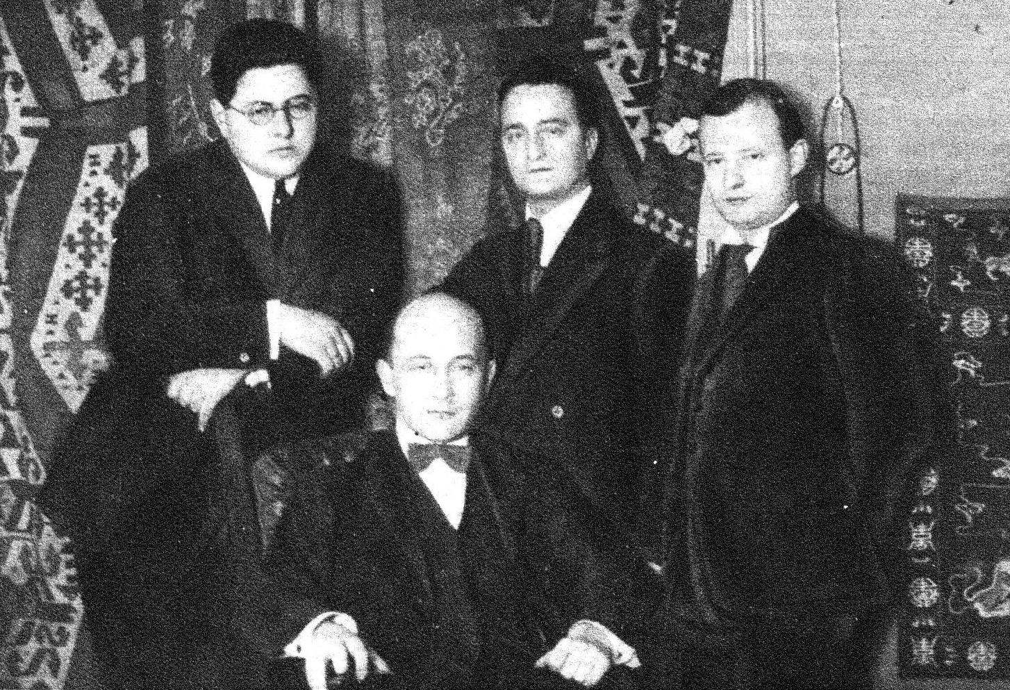 Amar Quartet